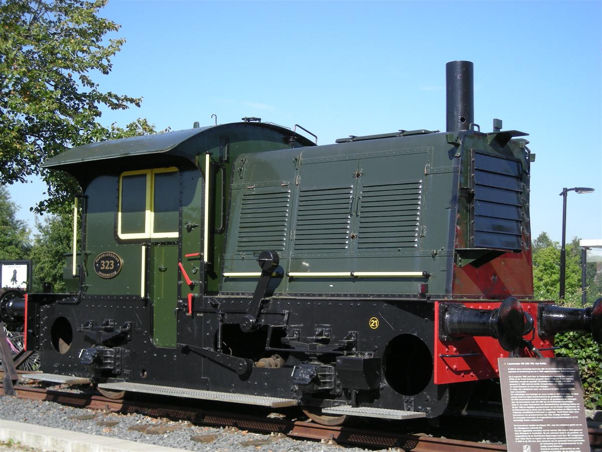 Locomotor, station Sneek